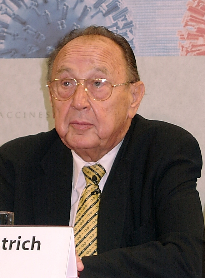 Hans-Dietrich Genscher, former Foreign Minister (1974-1992) of Germany; at a press conference in Cologne in 2001